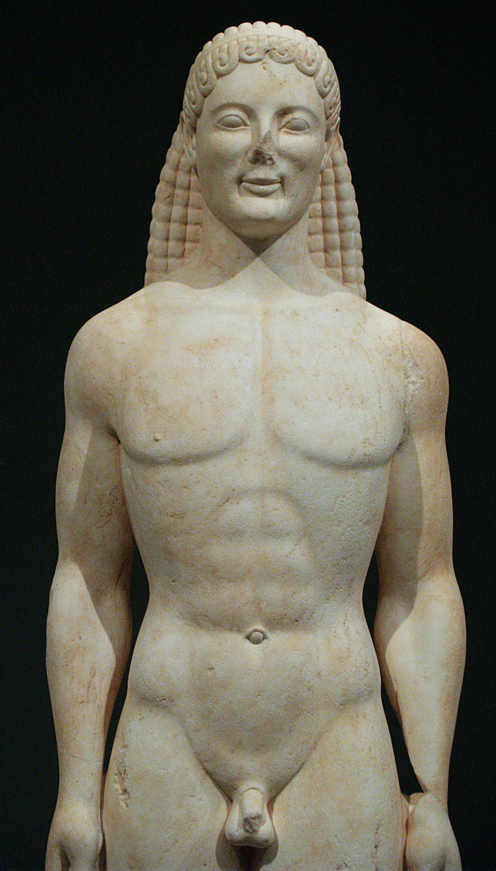 photograph of Getty Kouros at Getty Villa in Los Angeles